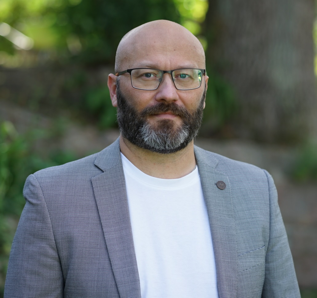 Artur Szulc, foto taget av Erika Vikström Szulc i Gdansk.